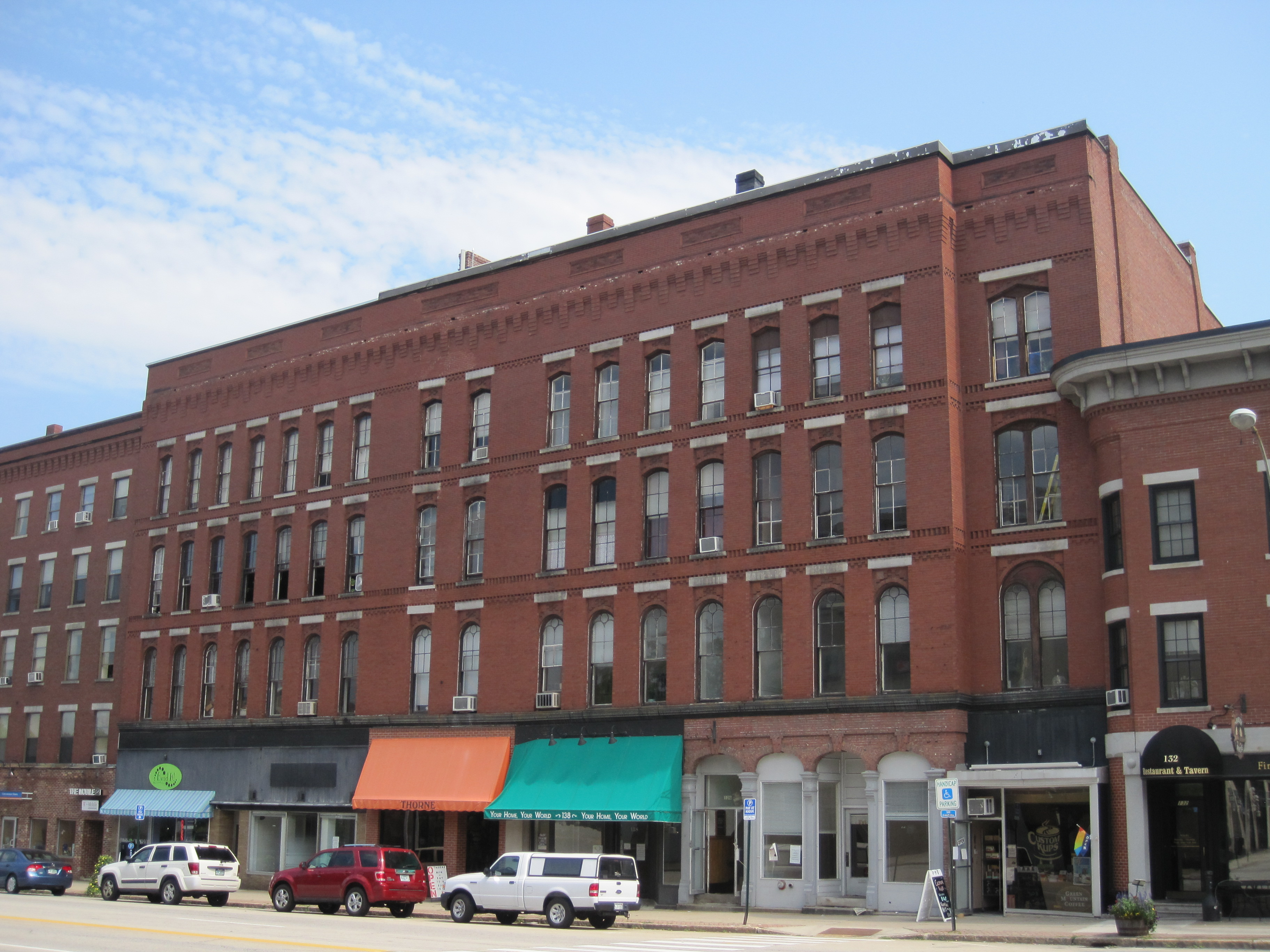 Stickney's Block, a building in the Downtown Concord Historic District. I (Teemu08 (talk)) took this image in August 2011.